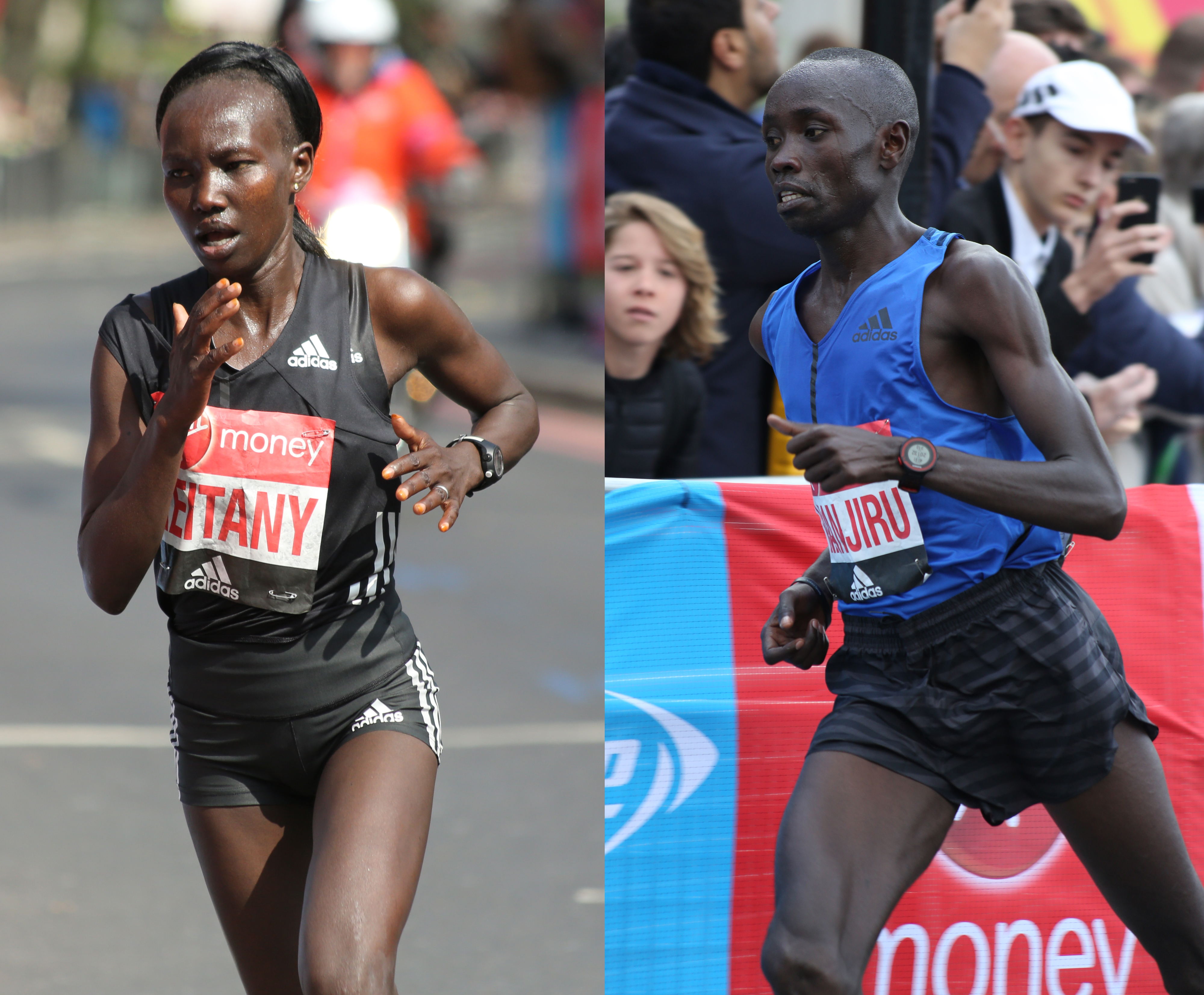 2017 London Marathon – Elite Women & Men winners – Mary Keitany, Daniel Wanjiru